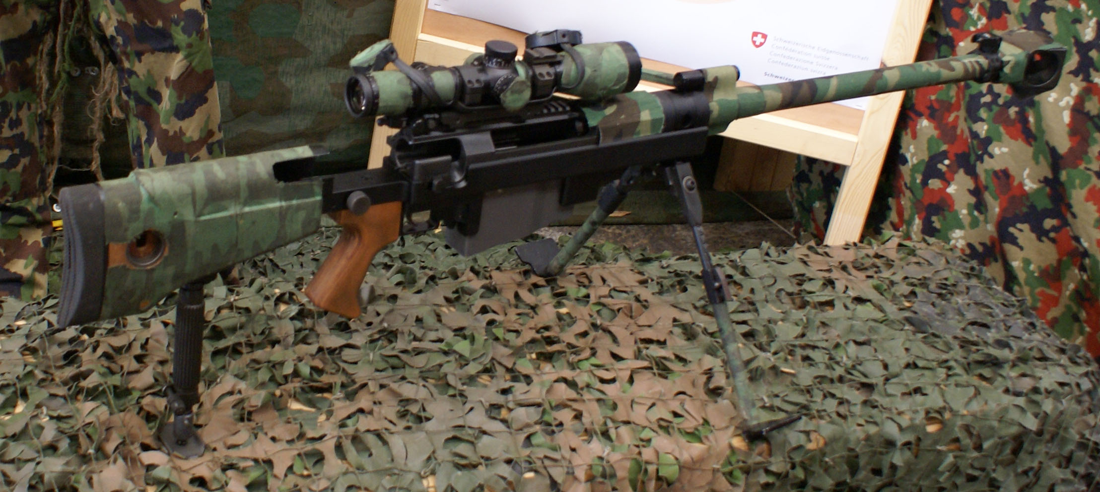 Swiss Army, .50 BMG Heavy Sniper Rifle 04 (PGM Hécate).